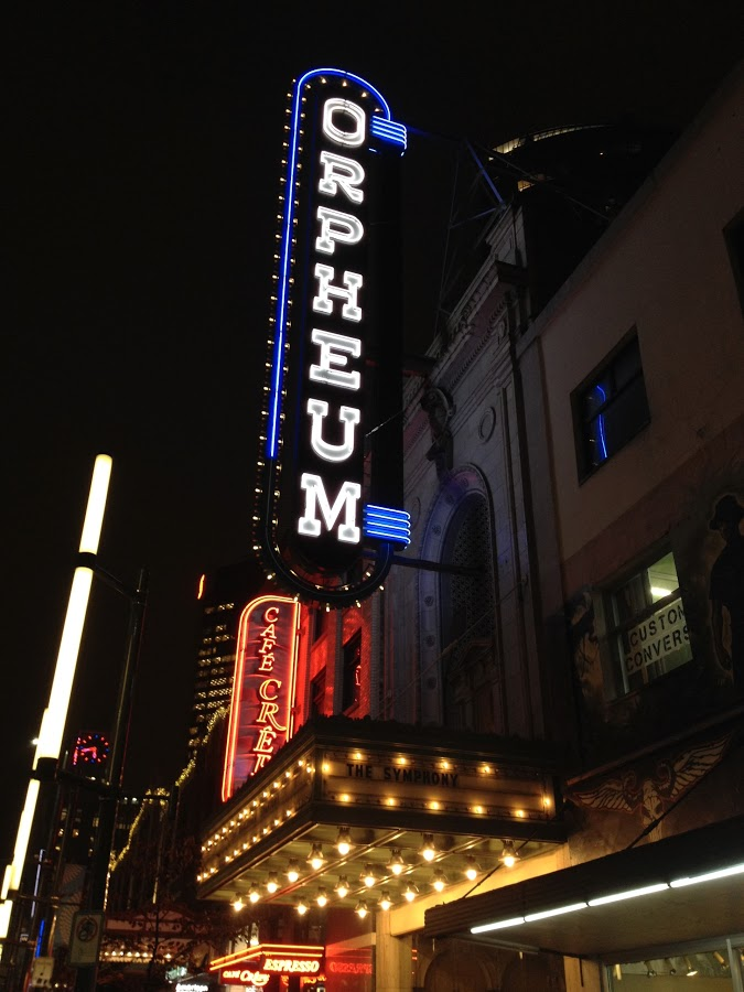 In the 1950s, Granville Street in Vancouver was home to more than a dozen large movie theatres with giant neon marquees - and the Orpheum Theatre, built in 1927, is one of the last of these old marquees still being used today, The Orpheum is currently the 2,780-seat, glorious home of the Vancouver Symphony Orchestra.